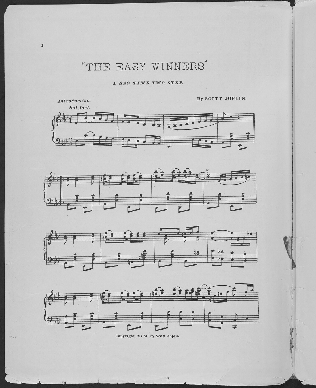 "The Easy Winners" a ragtime two step (sheet music) Page 2 of 5